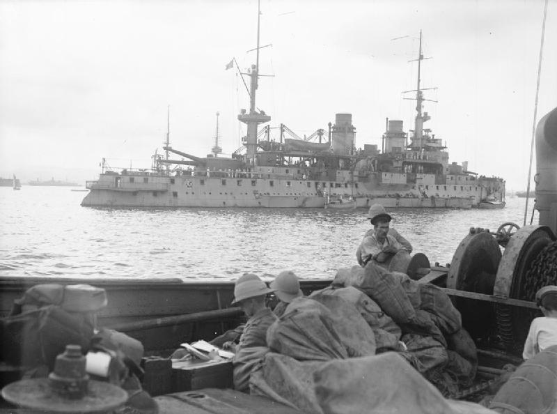 Photograph of French battleship CHARLEMAGNE at anchor off Mudros.